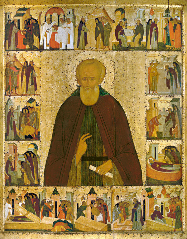 Dimitry Prilutsky